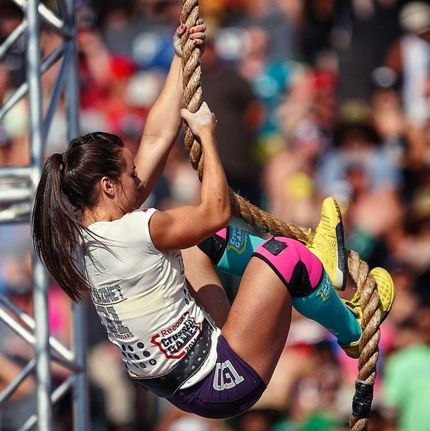 Nano at CrossFit Games